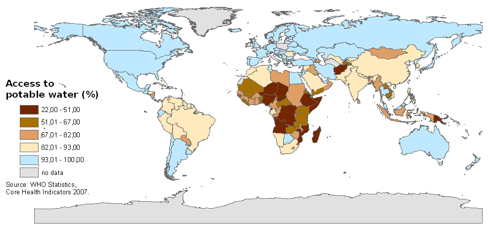 Access to potable water in 2005.